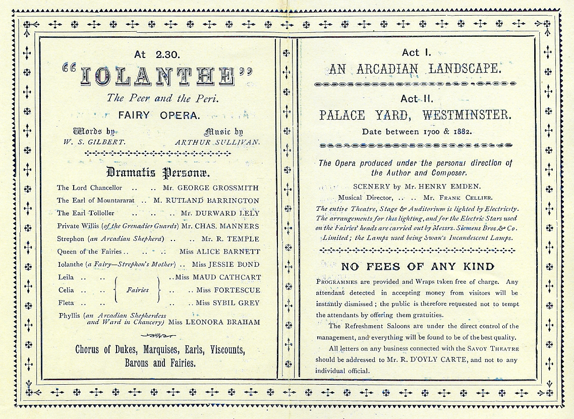 Inside of a programme from the original run of Gilbert and Sullivan's Iolanthe